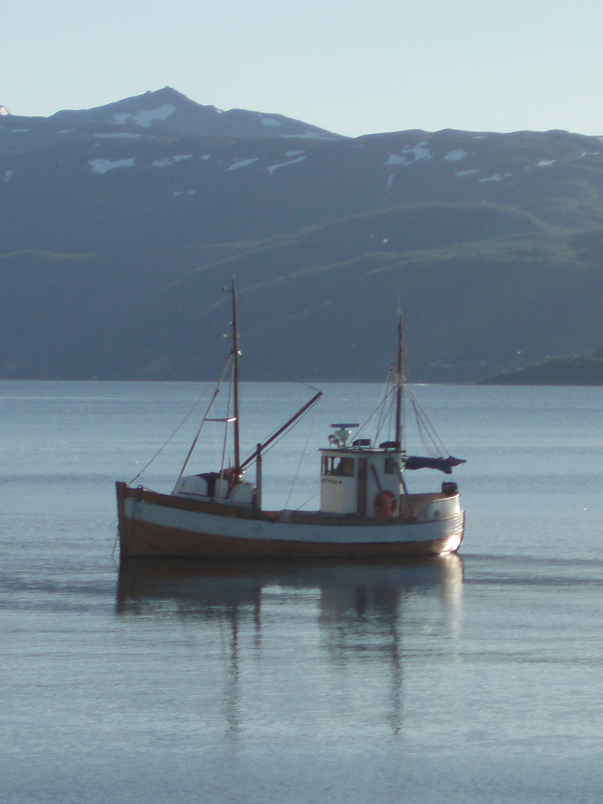 Fishing boat in Altafjorden at Alta